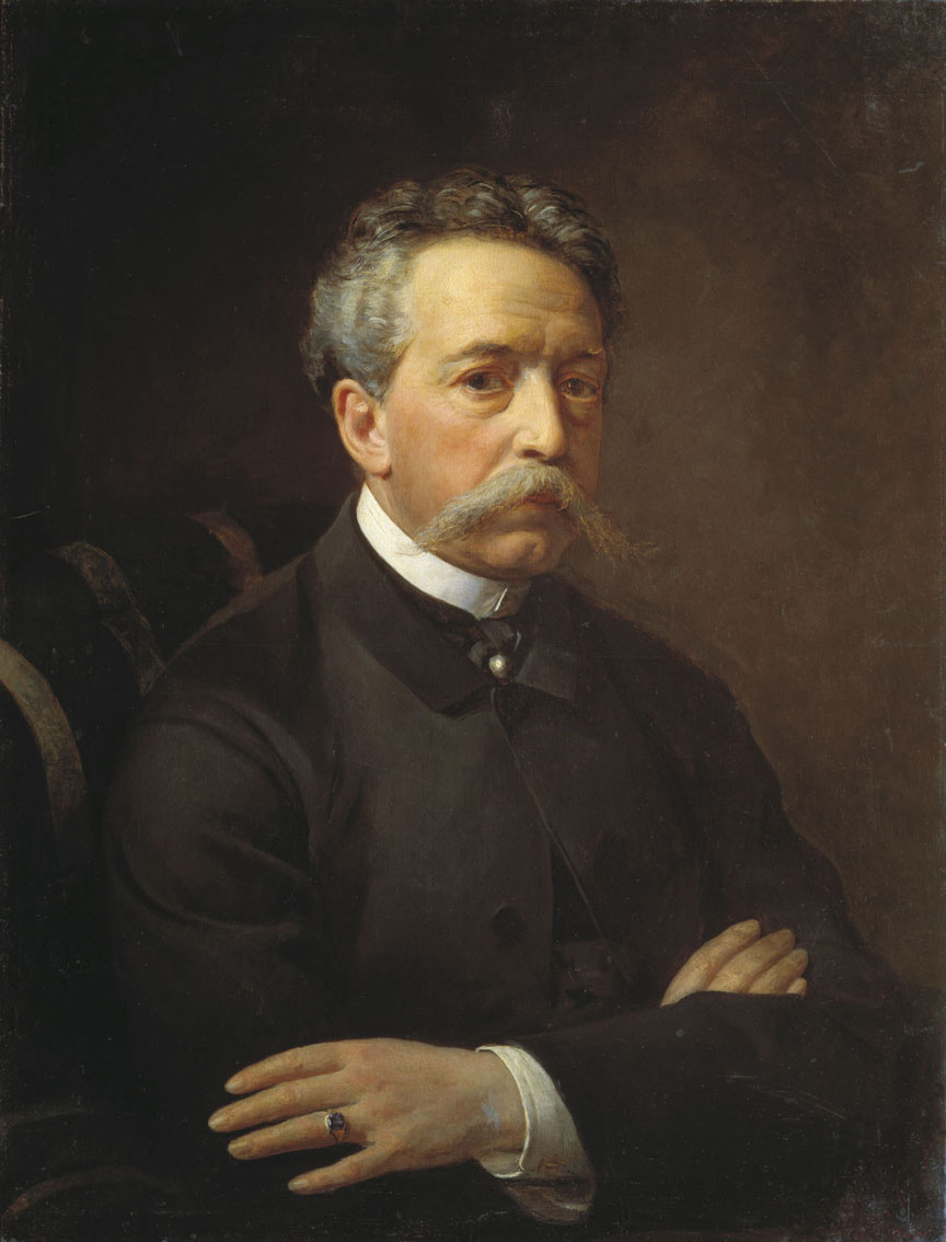 Portrait of Grigory Gagarin, vice-president of Imperial Academy of Arts, 1867 by Viktor Bobrov, 1841-1918